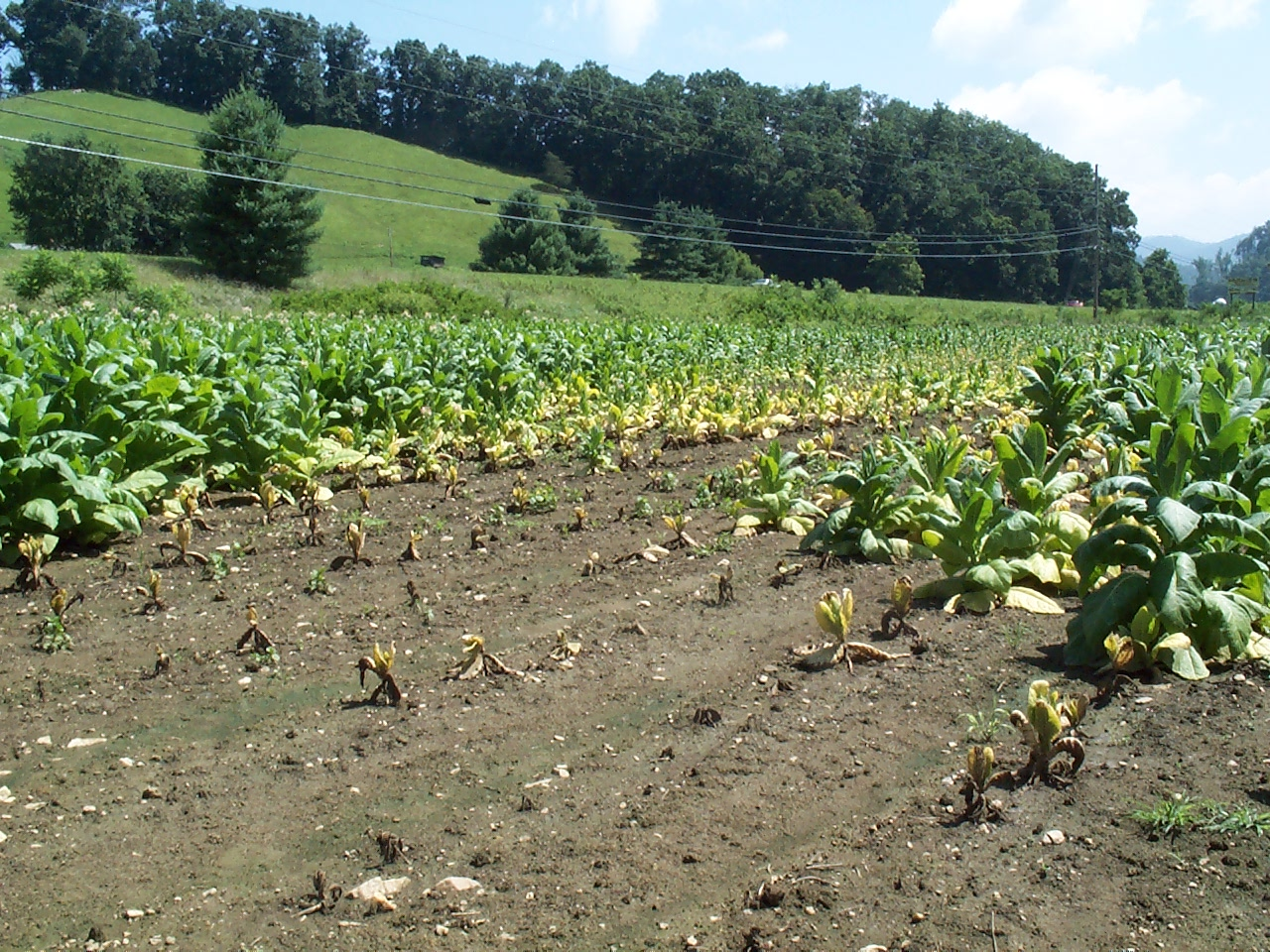 A field showing black shank infection of tobacco.